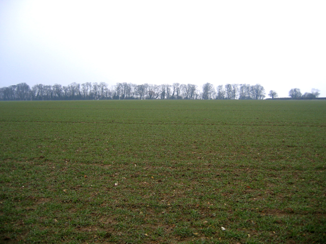 Long Belt, Beacon Hill, Colkirk, Norfolk. – view N across the centre of the square towards the hill, once the site of a beacon forming part of a chain from the North Norfolk Coast to London.